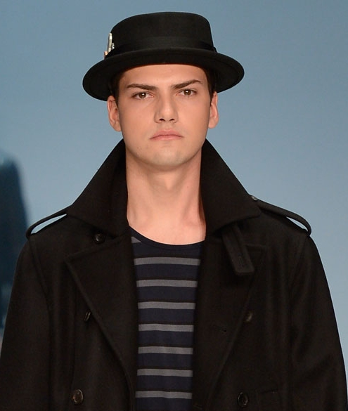 Jimi Blue Ochsenknecht at MICHALSKY StyleNite